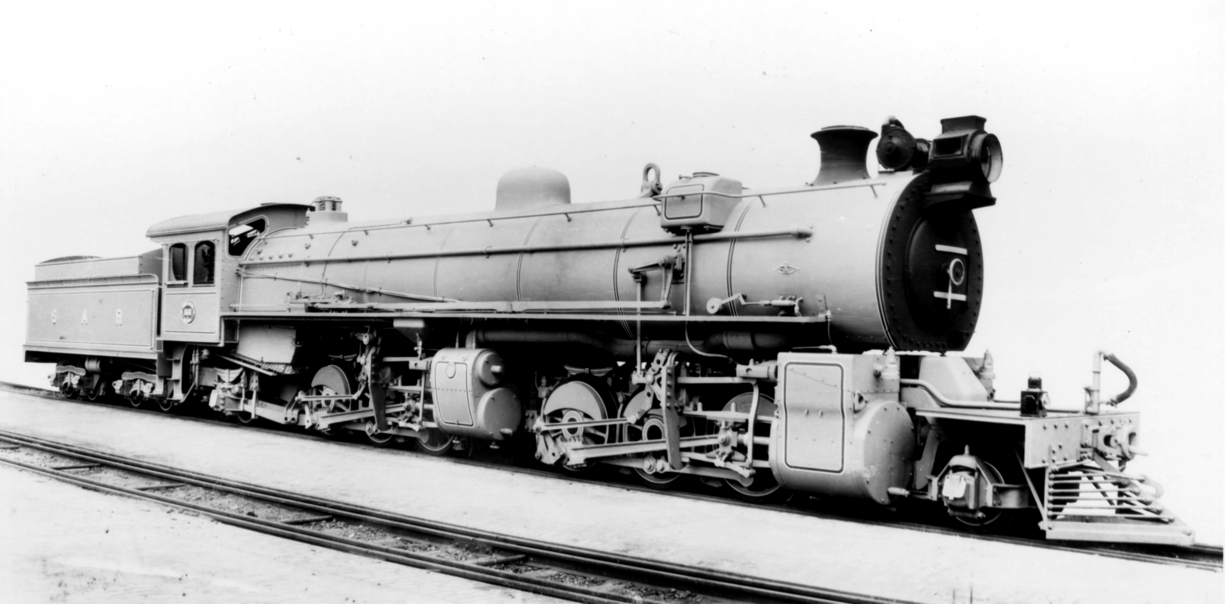 Works picture of South African Railways Class MH no. 1661.